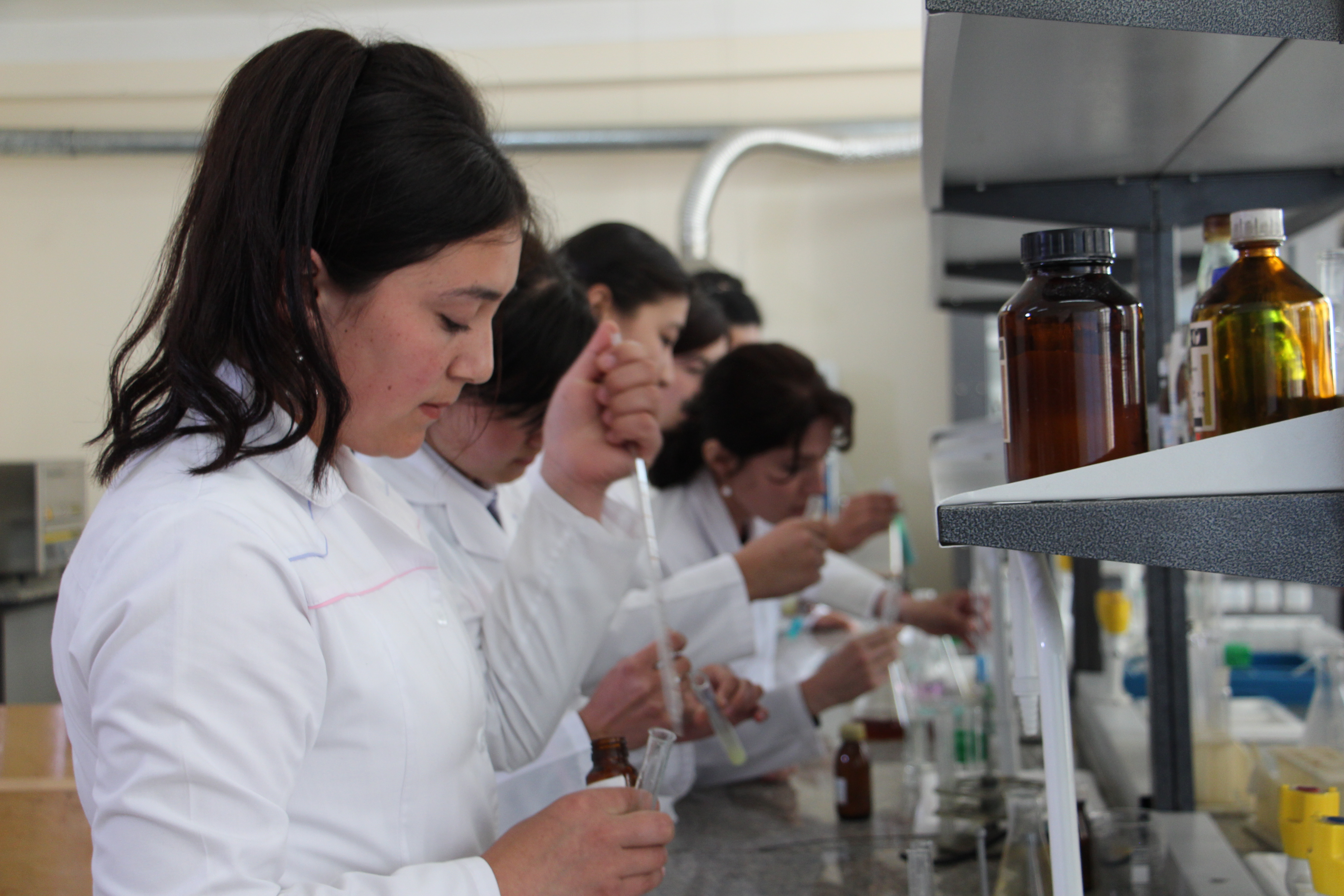 Labaratoriya